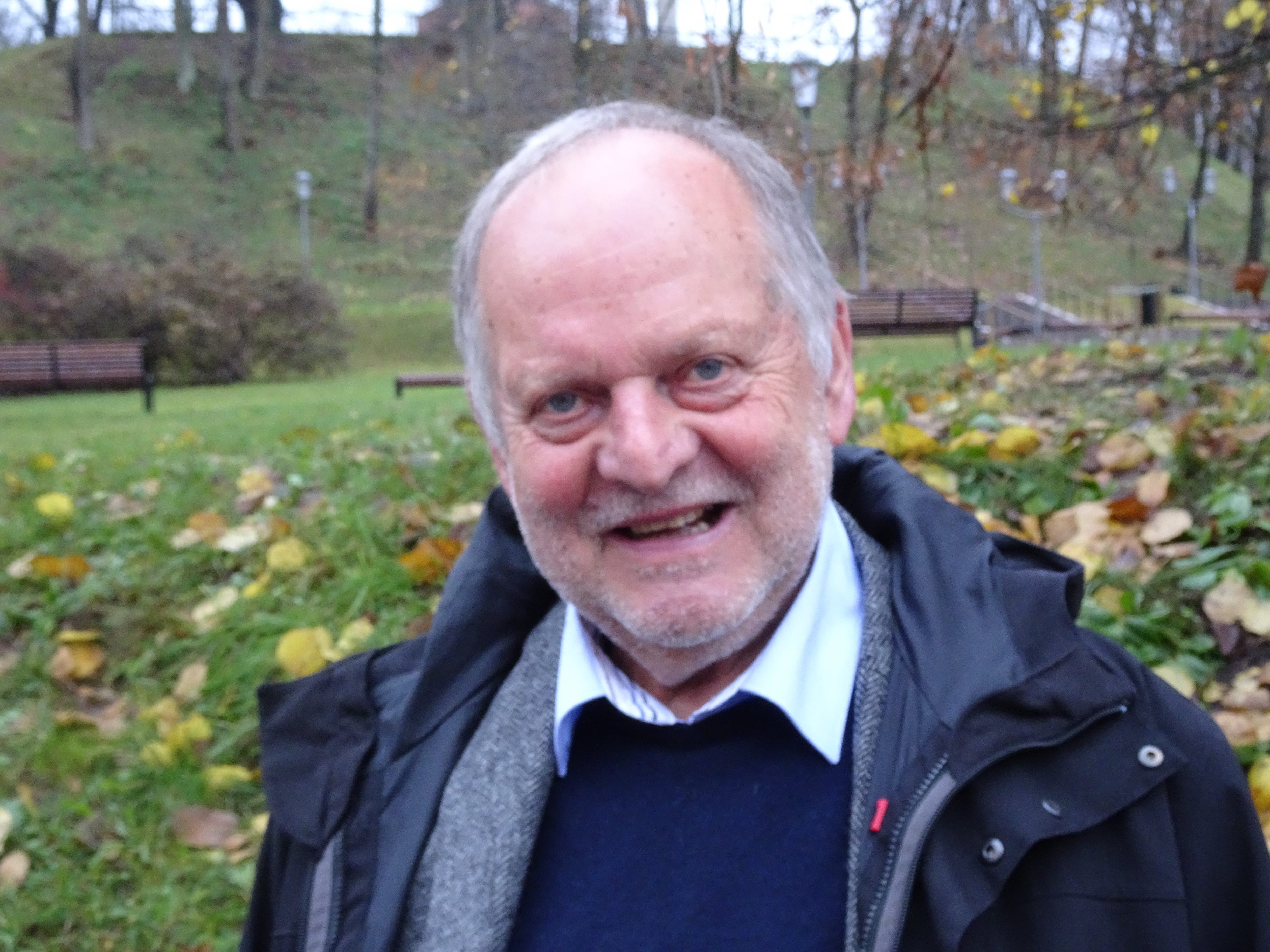 Prof. Gunther Kress